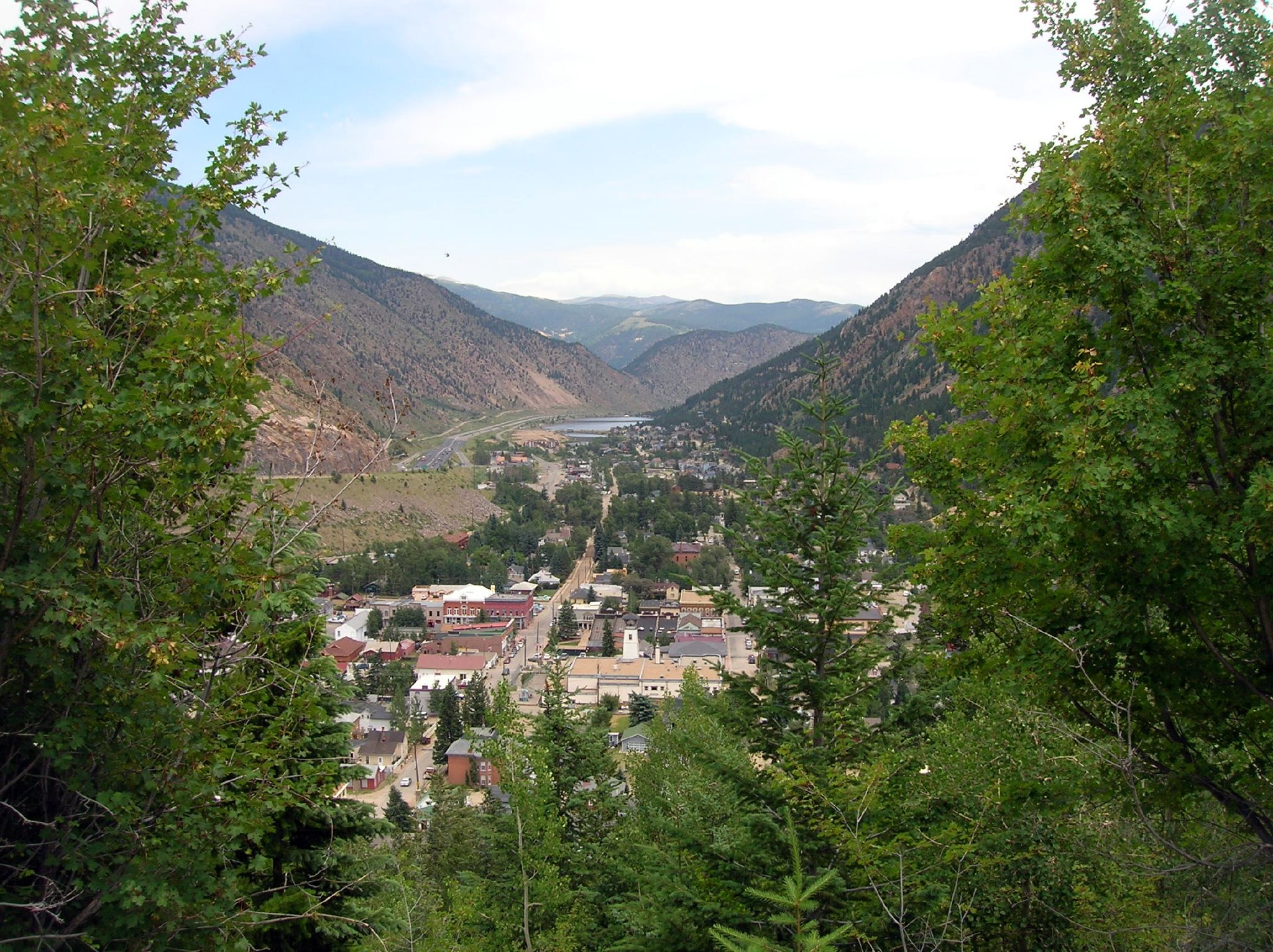 Looking north over Georgetown, Colorado, USA